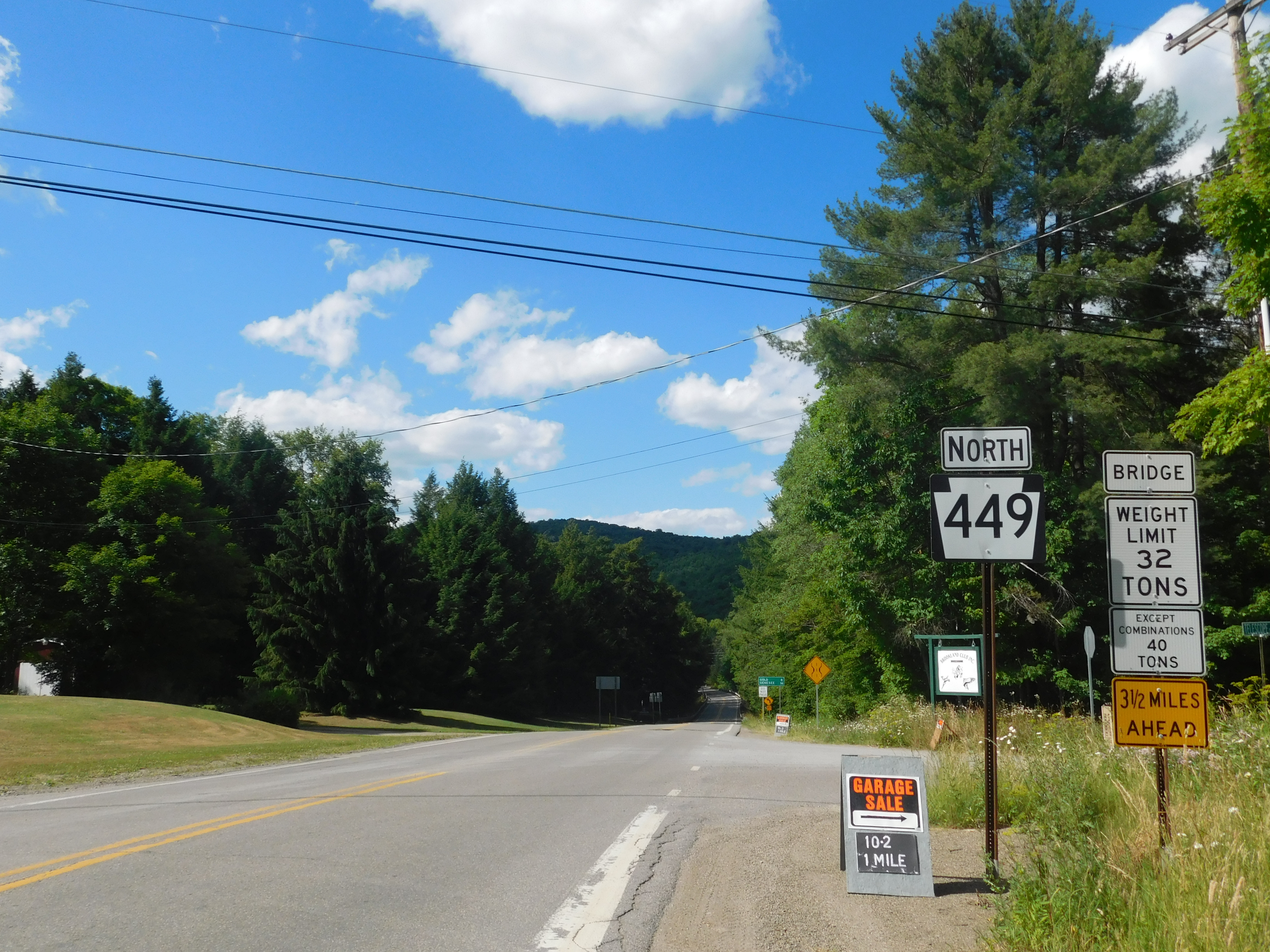 PA 449 heading north from US Route 6 in Ulysses Township, Potter County, Pennsylvania.